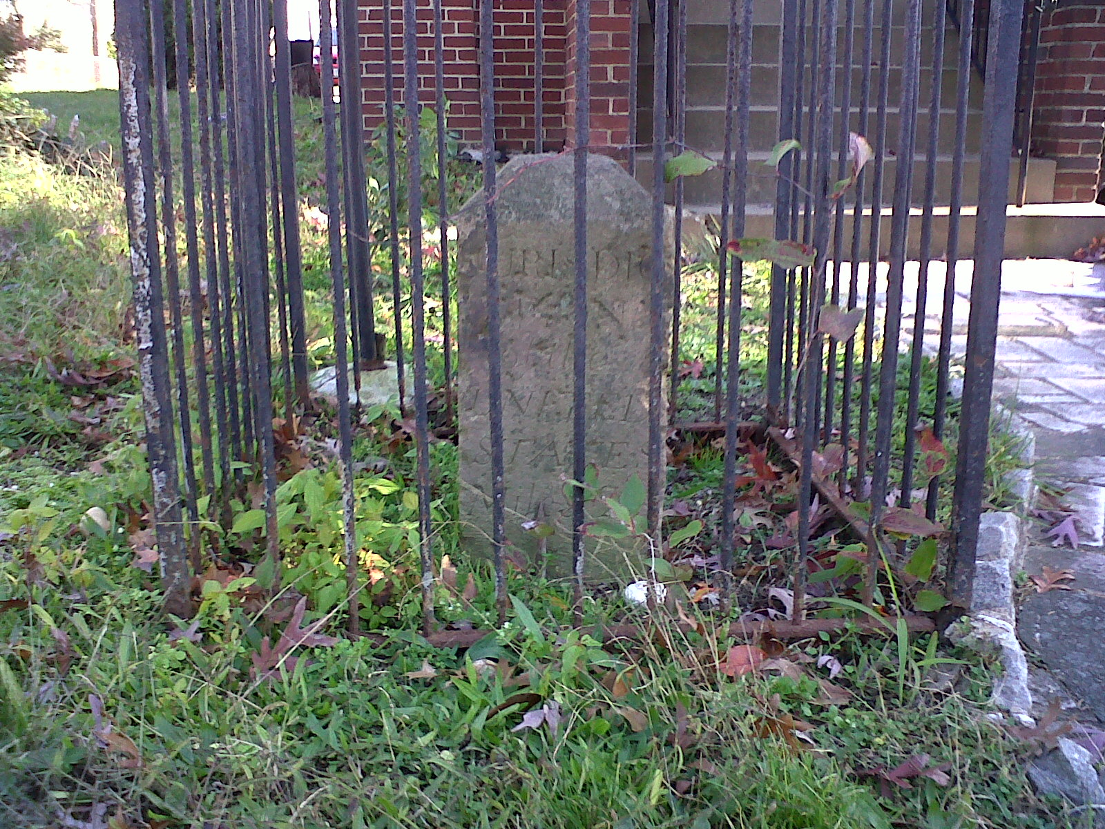 Southeast No. 2 Boundary Marker of the Original District of Columbia is located at 4345 Southern Ave., Washington, DC. It is listed on the National Register of HIstoric Places.